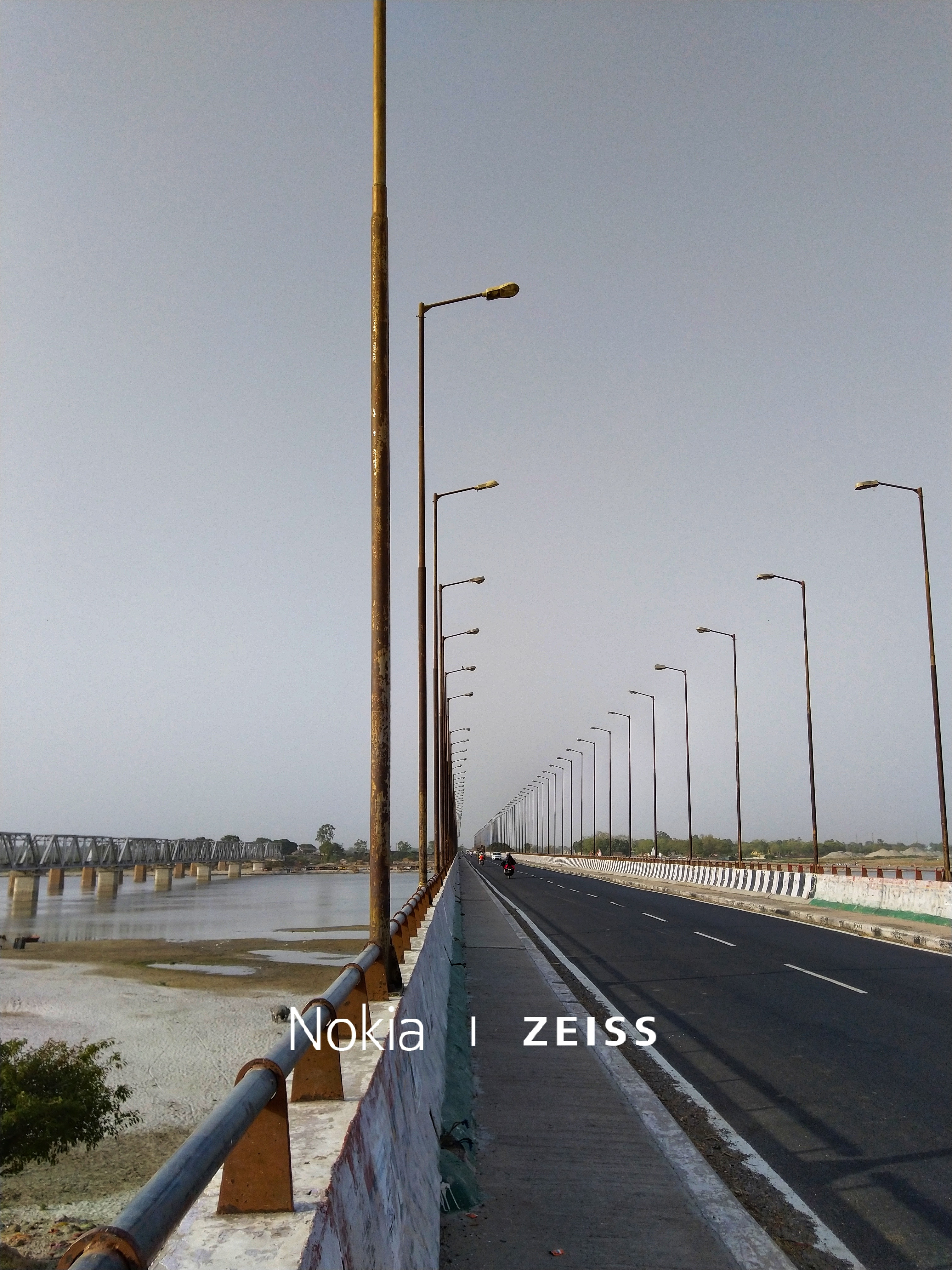 Roadways transportation have improved due to this bridge. Saving duration of travel towards badaun and connected cities.